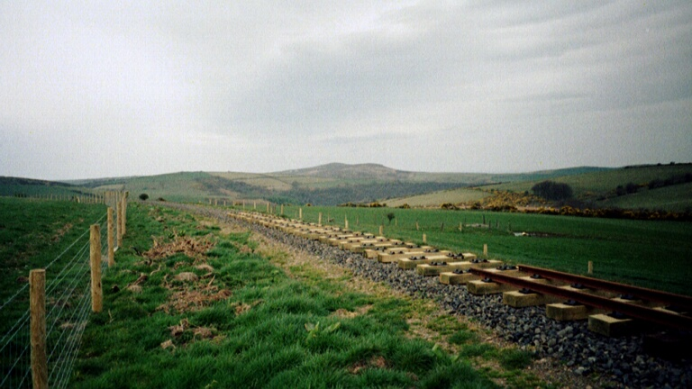 View from the trackside, Woody Bay, Lynton & Barnstaple Railway, 2003. Photo by Martyn de Young